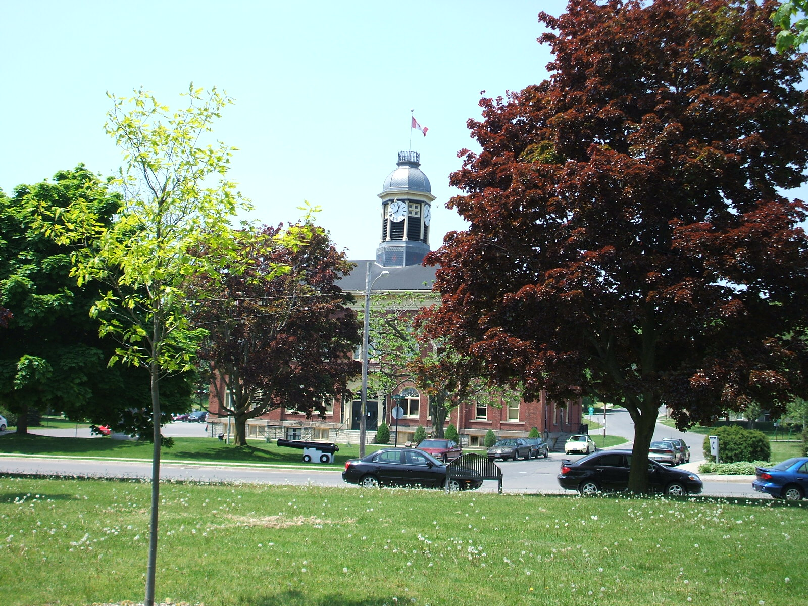 City hall, Port Hope, Ontario, Canada